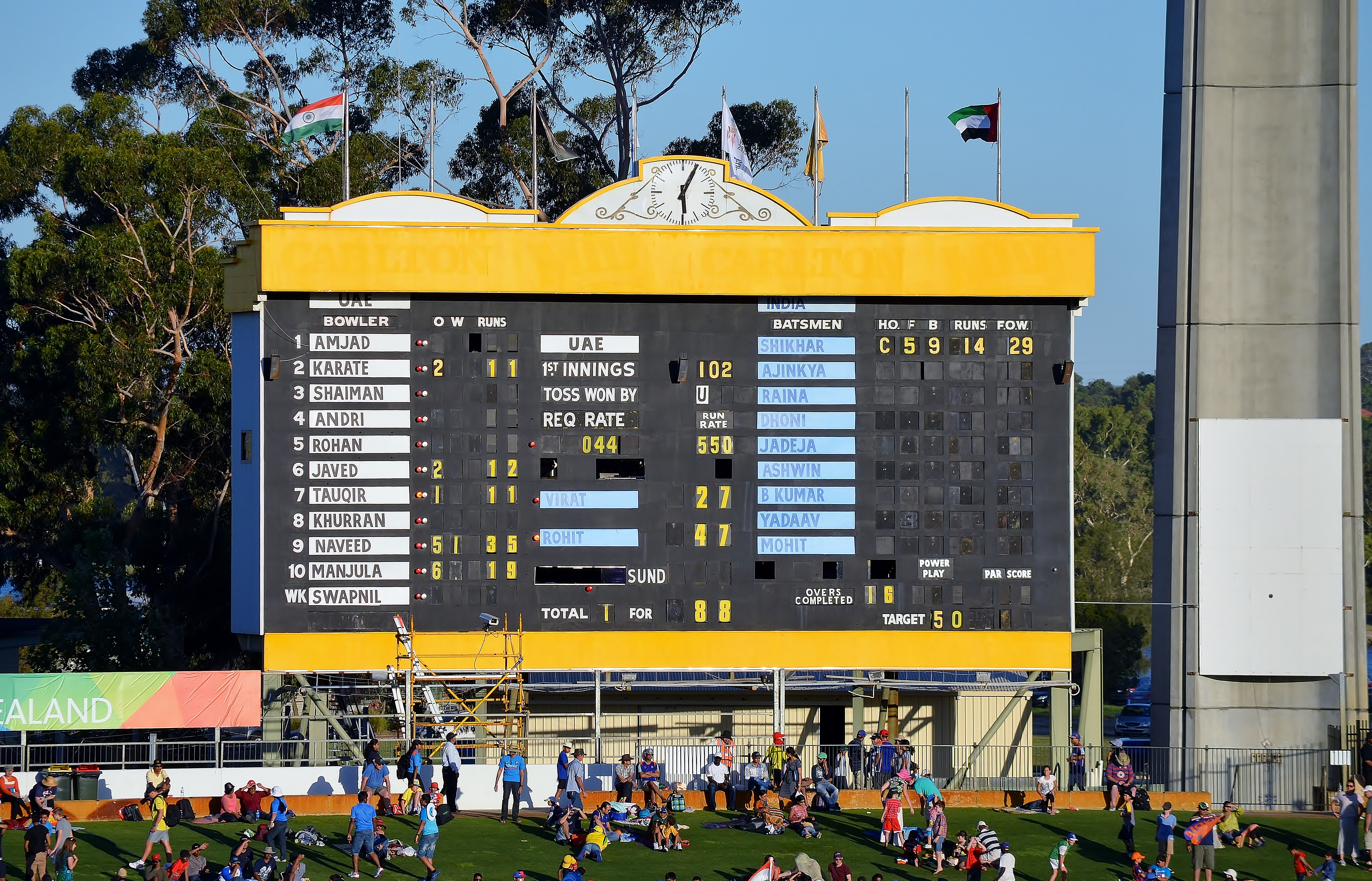 View of the historic manually operated scoreboard at the WACA Ground, Perth, Australia, during the dinner break of the 2015 Cricket World Cup match between India and the United Arab Emirates.